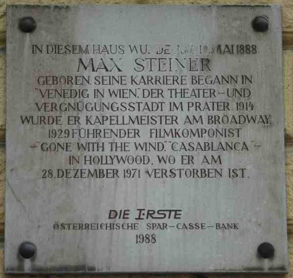 Memorial plaque commemorating Max Steiner's 100th birthday. Erected in 1988 at Steiner's birthplace, the Hotel Nordbahn (Vienna, Praterstraße 72)